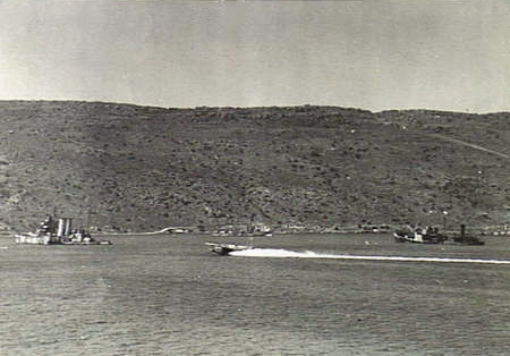 The Royal Navy heavy cruiser HMS York (90) and the tanker Pericles , both damaged, at Souda Bay, Crete, in May 1941. A Short Sunderland flying boat is landing between them.